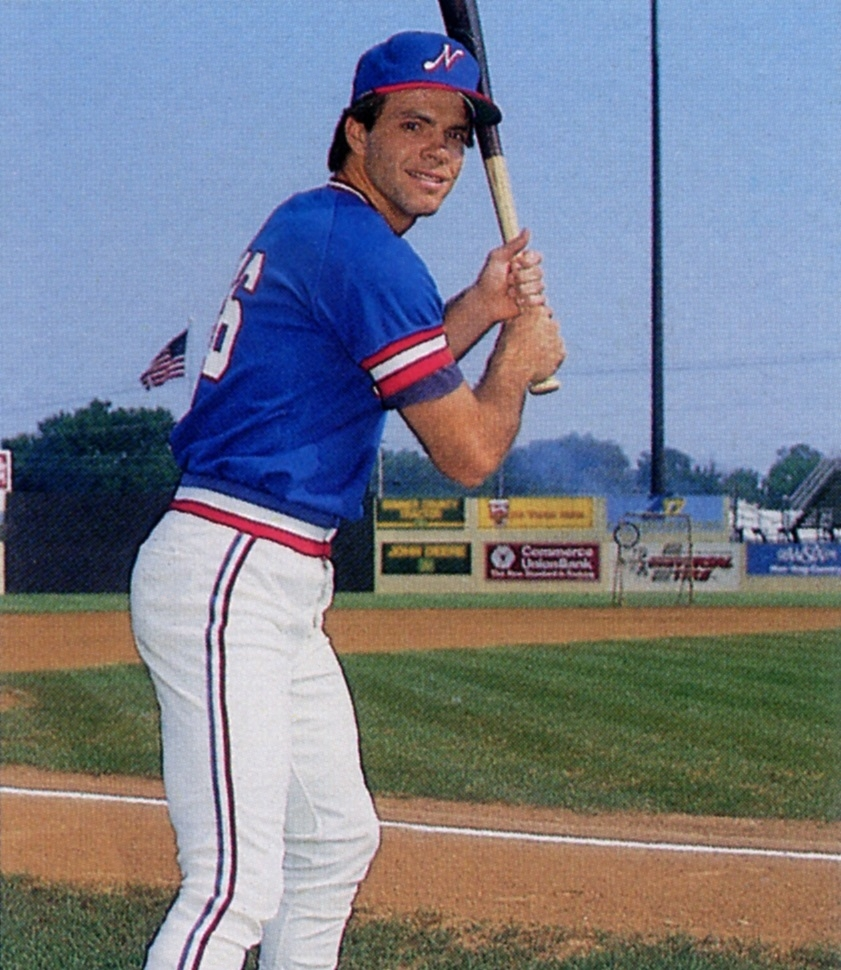 Catcher Matt Nokes of the 1986 Nashville Sounds Minor League Baseball team of the American Association